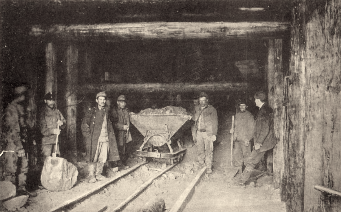 Construction of the tunnel near Miechow.